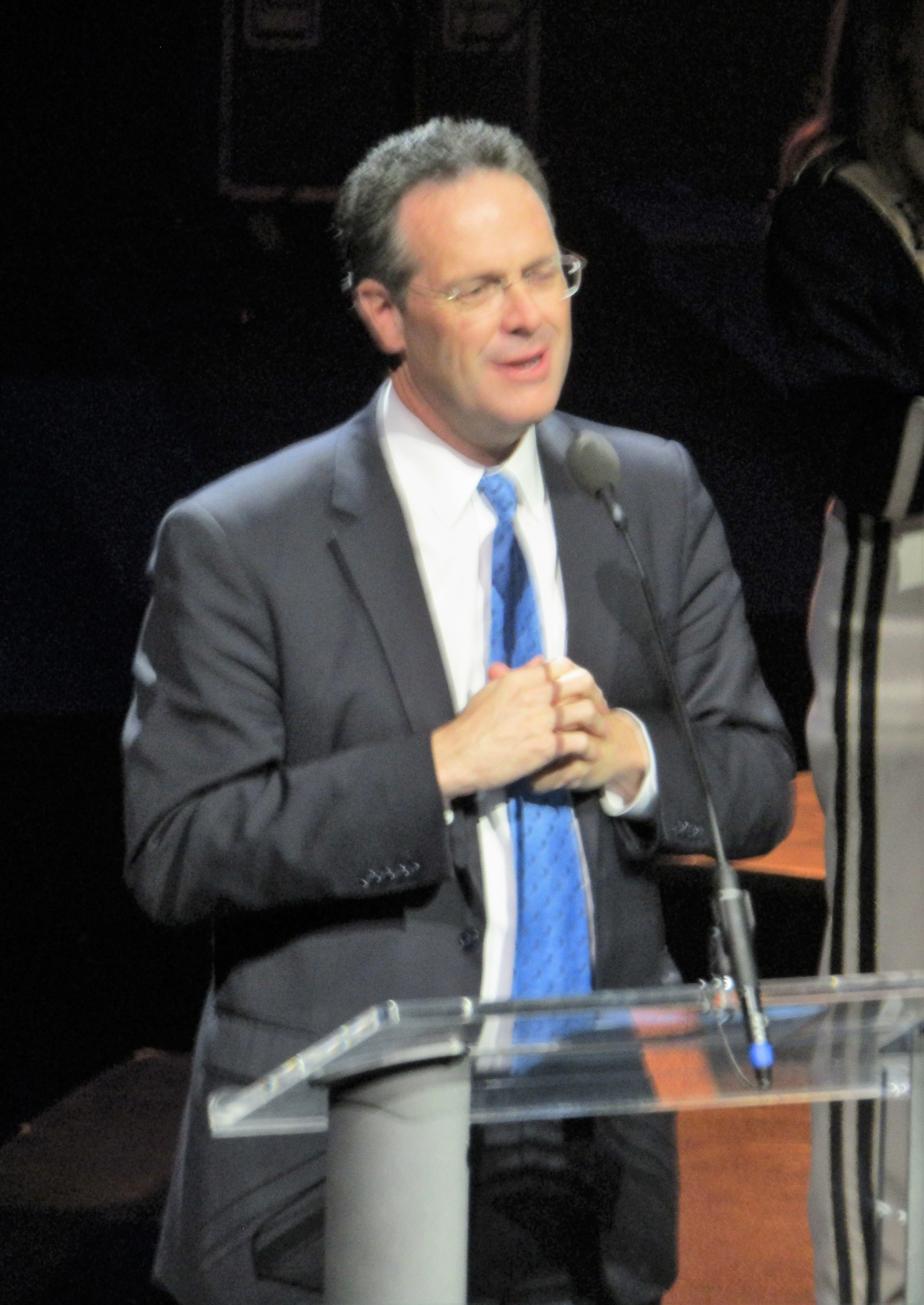 Matthew O. Richardson speaking at the BYU Homecoming opening ceremony.